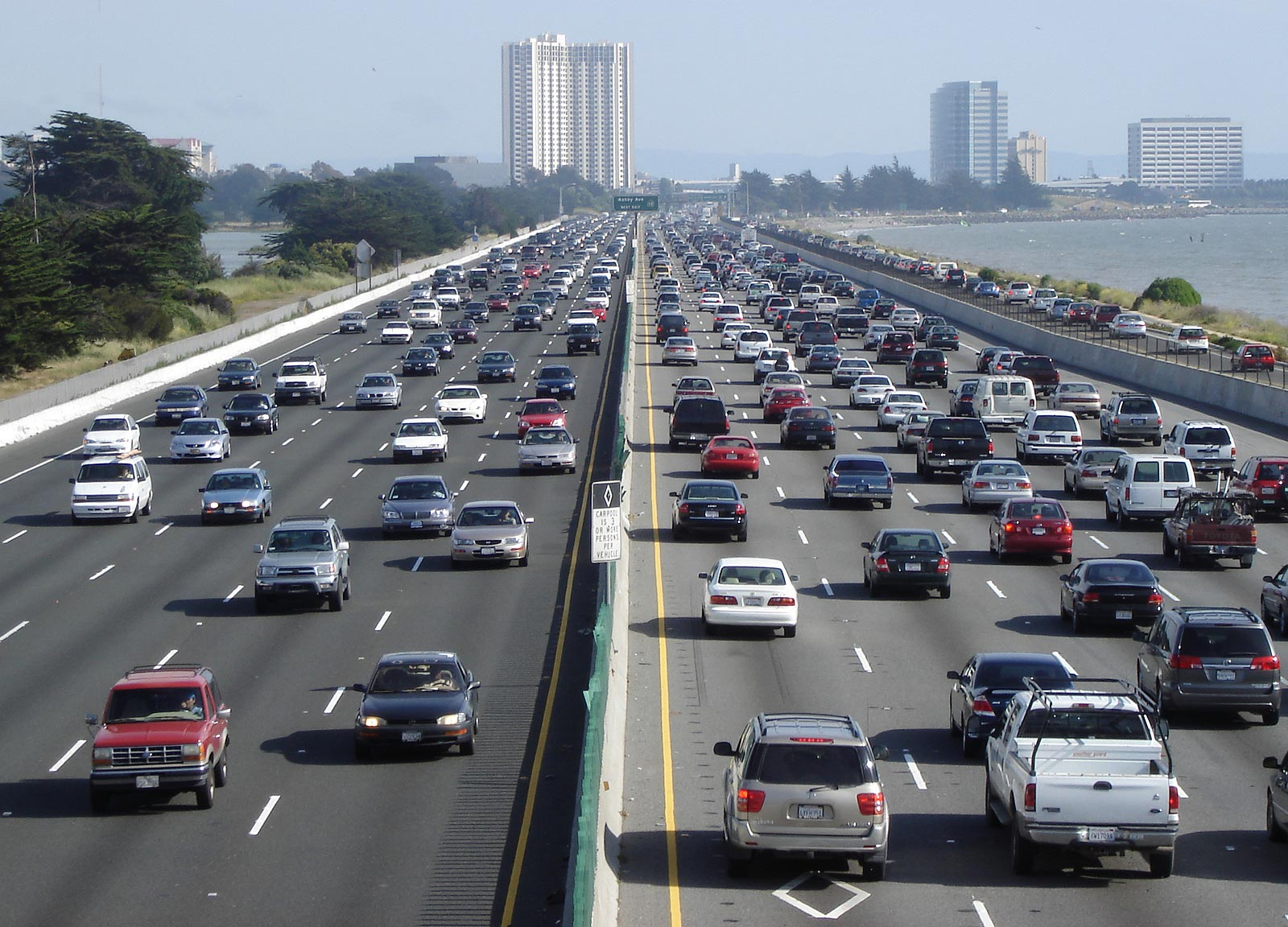 Looking south above Interstate 80, the Eastshore Freeway, near Berkeley, California on a Saturday afternoon. Emeryville, California is at the towers, Aquatic Park (Berkeley) is visible to the left. To the right is the east shore of the San Francisco Bay. Picture taken by Minesweeper on May 14, 2005.